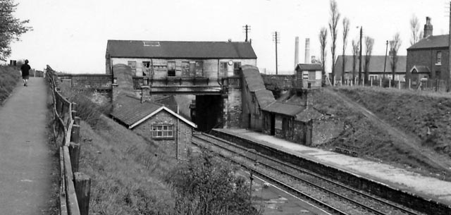 Brandon Colliery Station (remains). View NE, towards Durham; ex-NER Bishop Auckland - Durham line. The station looks rather decrepit in 1965; it was closed to passengers on 4/5/64, to goods on 10/8/64; the line closed finally on 5/8/68.